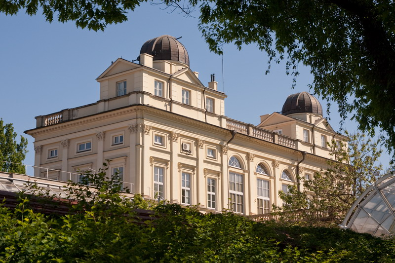 Warsaw University Astronomical Observatory building in the Royal Baths Park